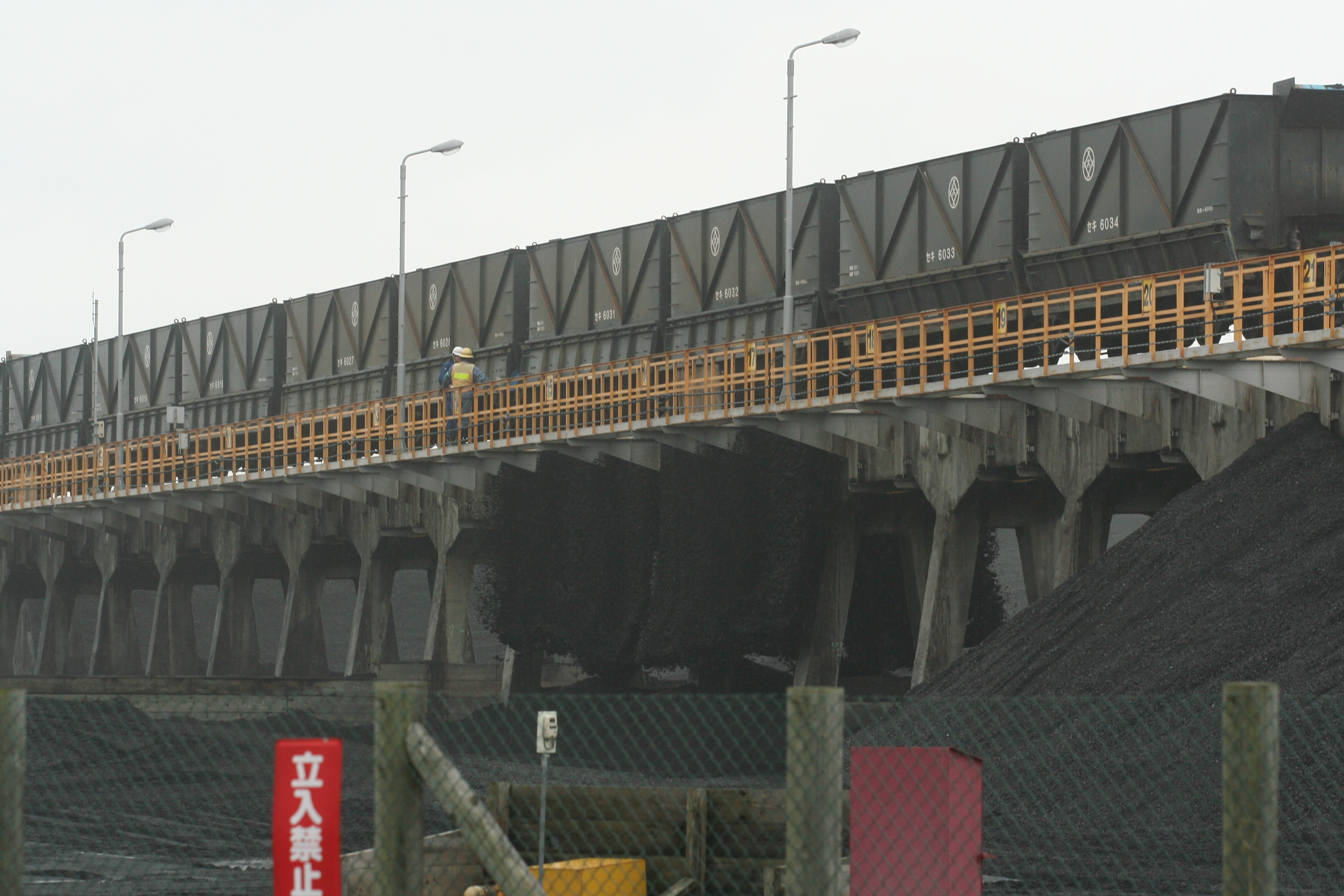 Hopper car is Unloading at Shiruto(Kushiro City,Hokkaido,Japan).Left side was done,right side was undone.